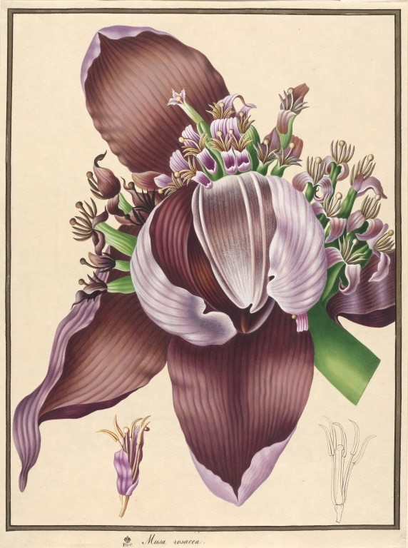 Musa rosacea is a synonym of Musa balbisiana Colla